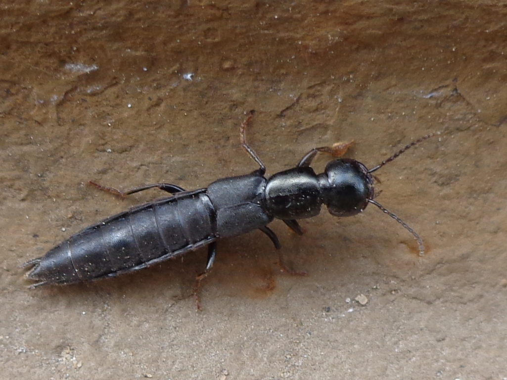 Tasgius ater. Found in Rīga town, Latvia.